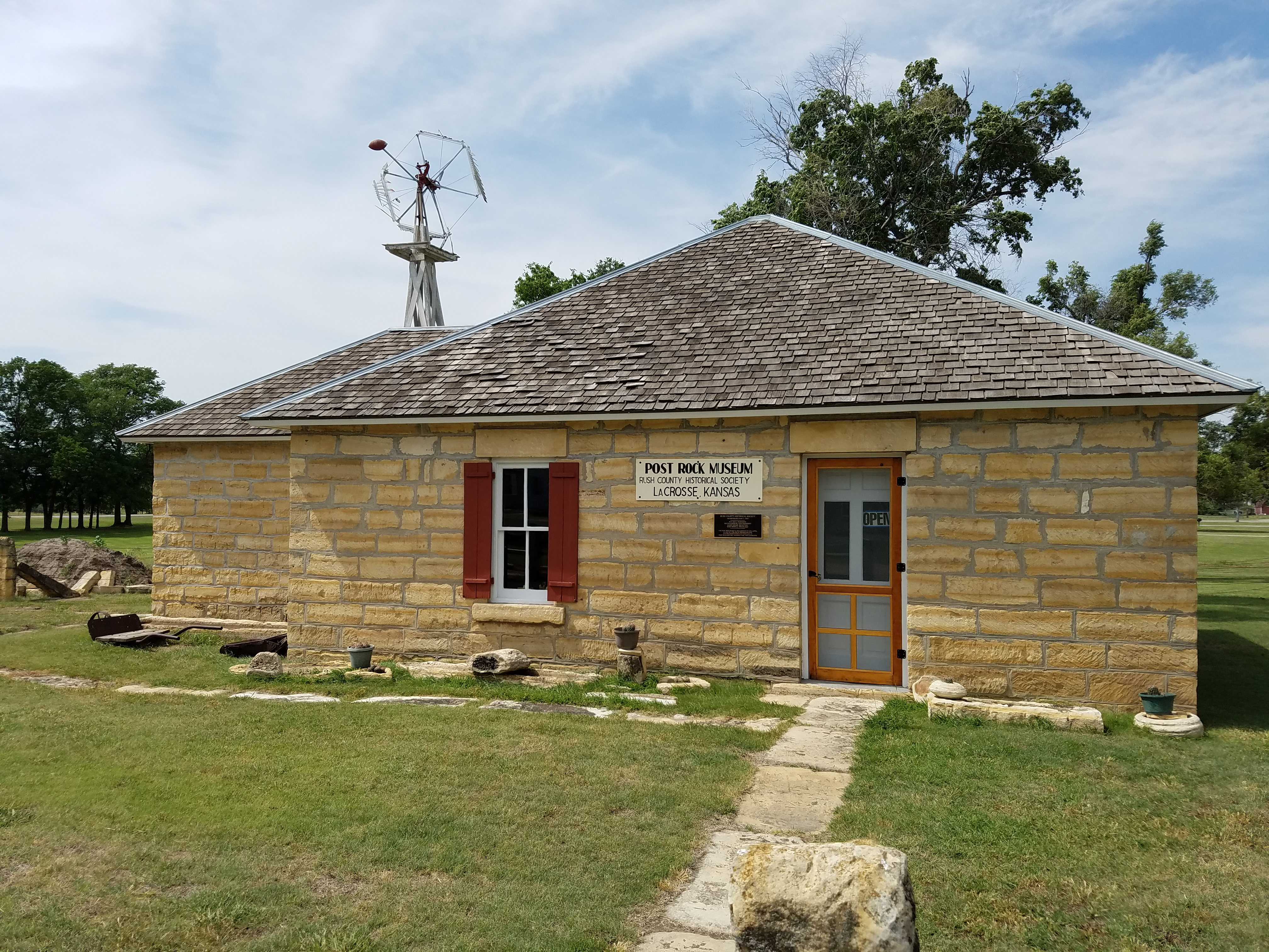 Post Rock Museum (La Crosse, Kansas) Built of Fencepost limestone.